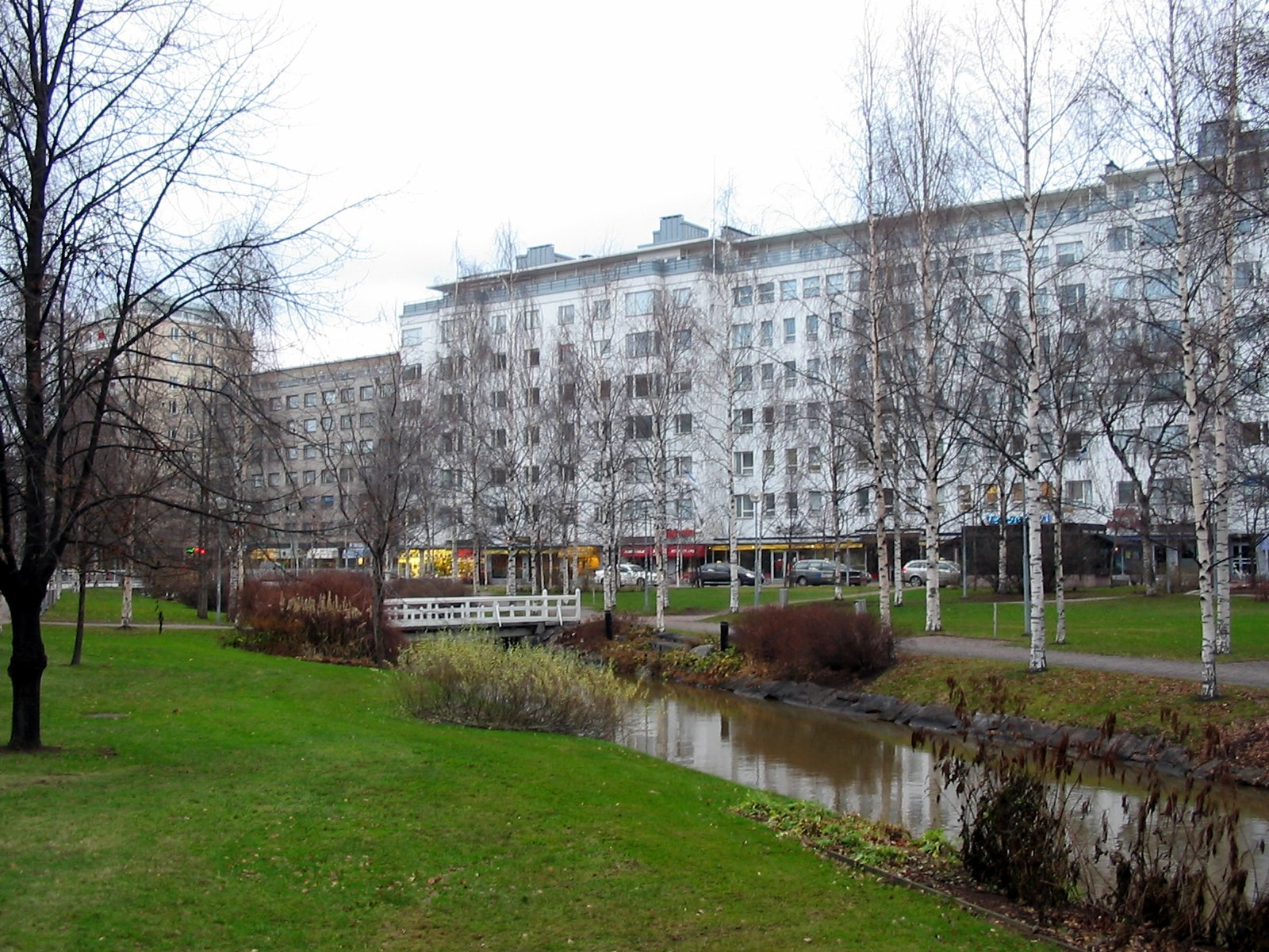 The Otto Karhi Park in the central Oulu, Finland. The park was previously known as the Fire Brigade Park.